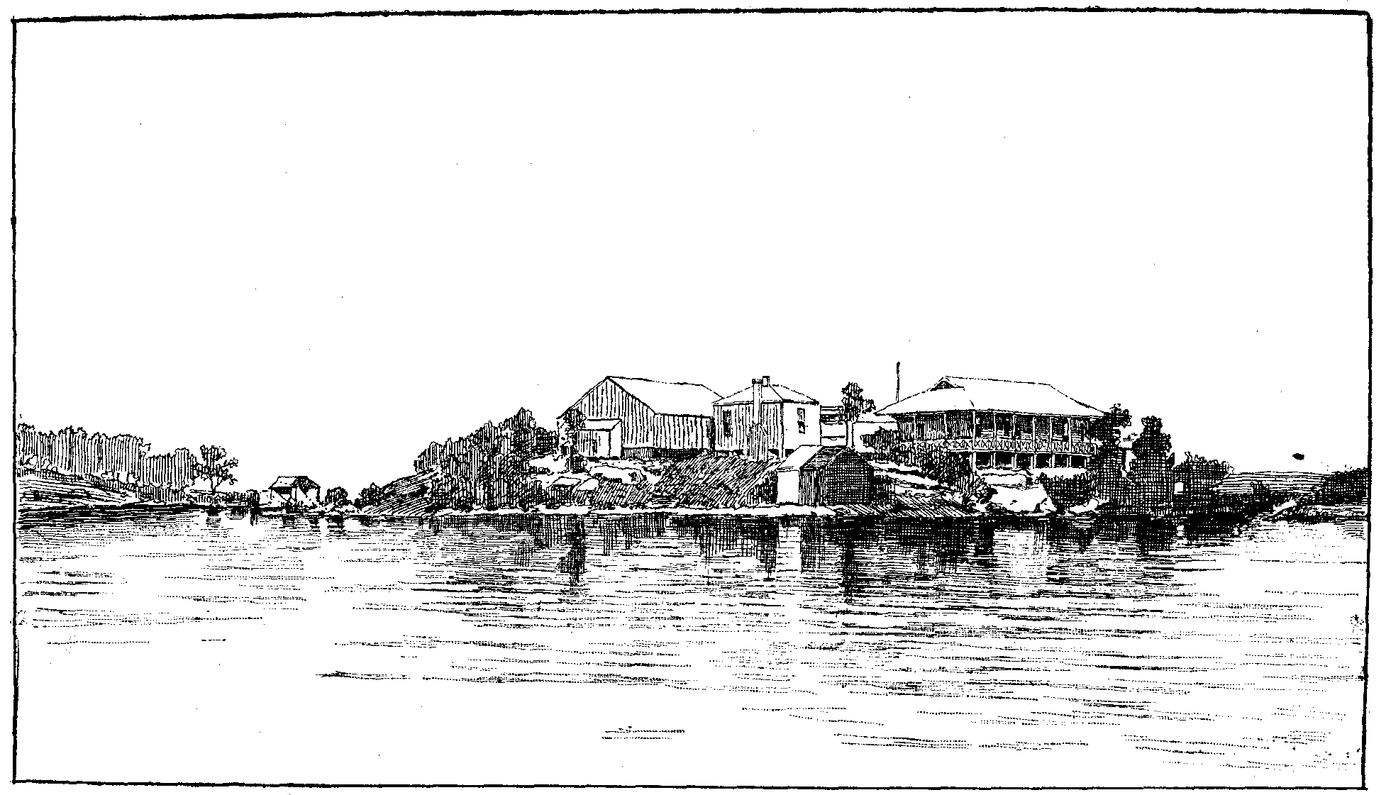 Illustration of the Pasteur Institute on Rodd Island appearing as figure 2 in Adrien Loir's thesis of 1892